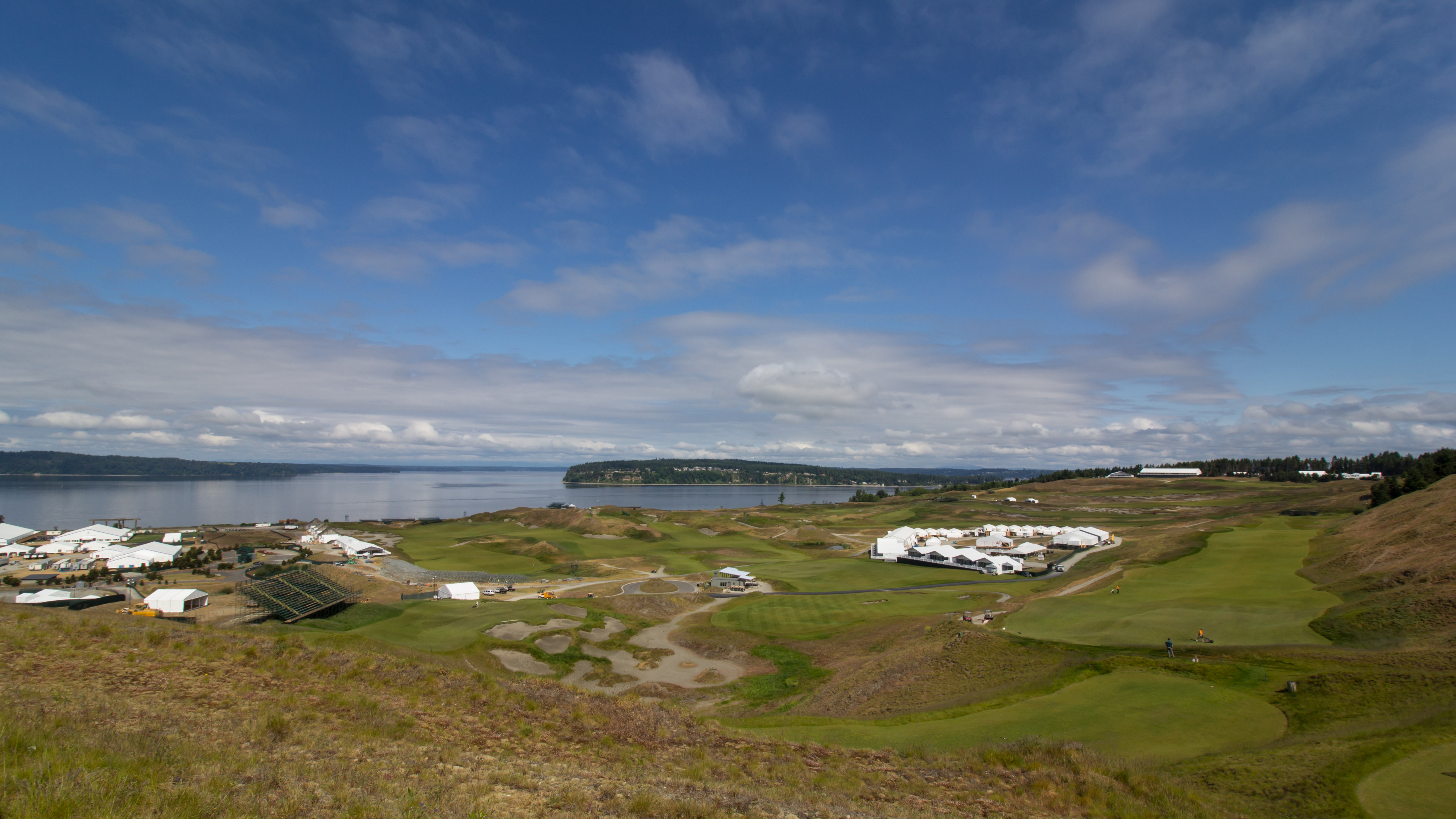 Southern end looking north